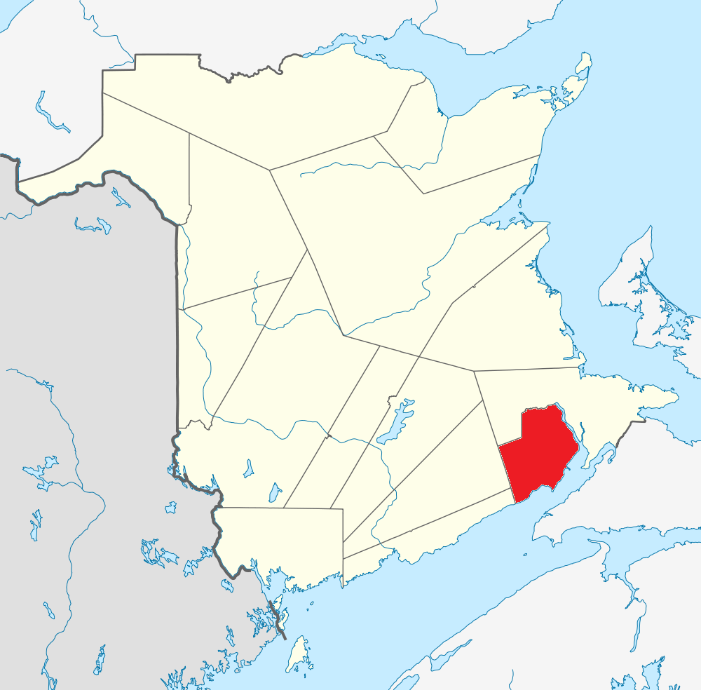 Map of New Brunswick highlighting Albert County